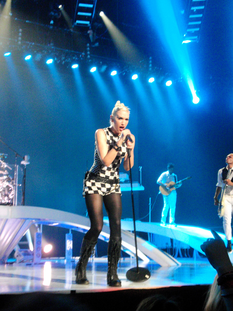 No Doubt performing during the Summer Tour 2009 in General Motors Place in Vancouver.